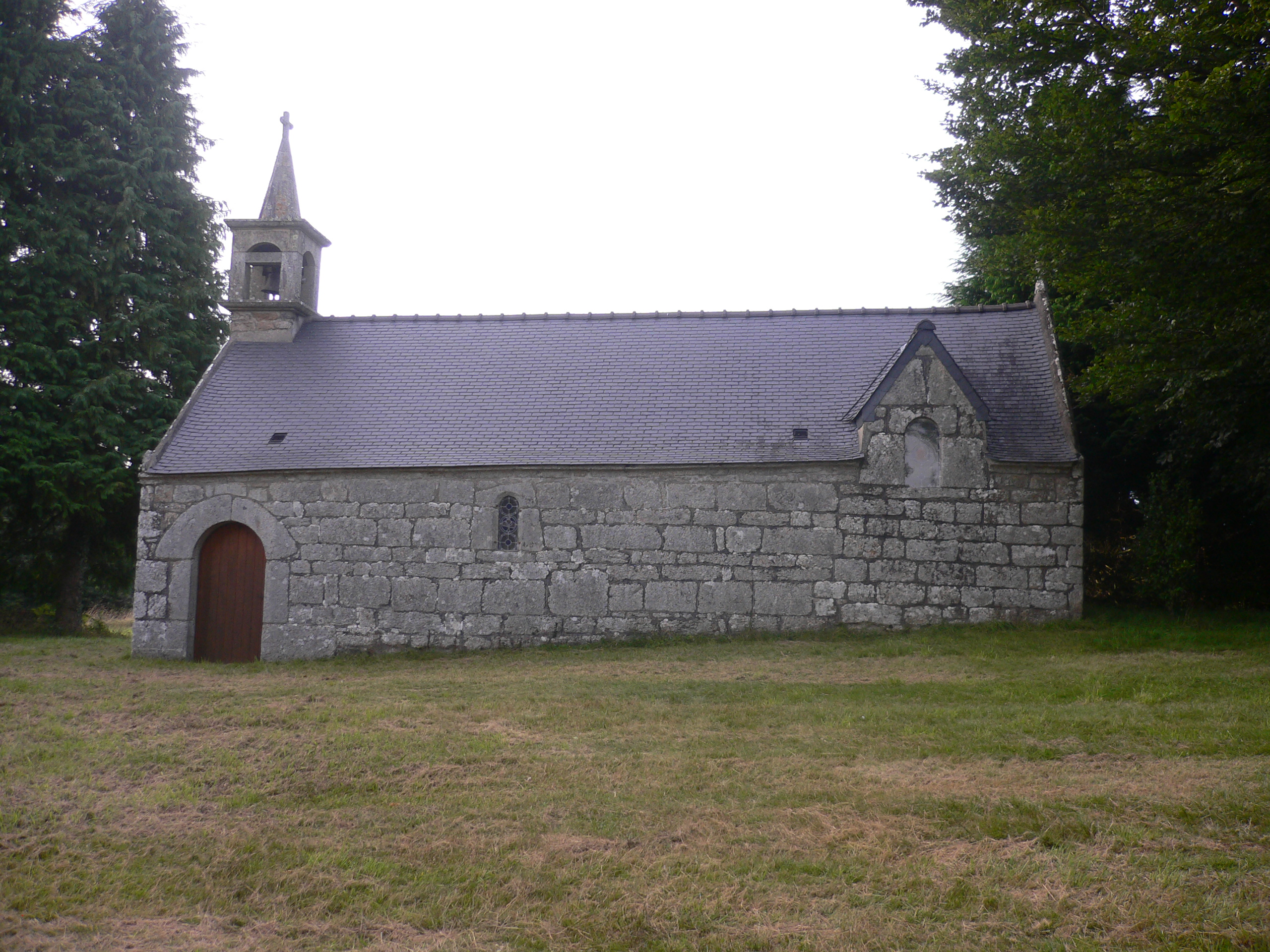 church St Geoges in Meslan